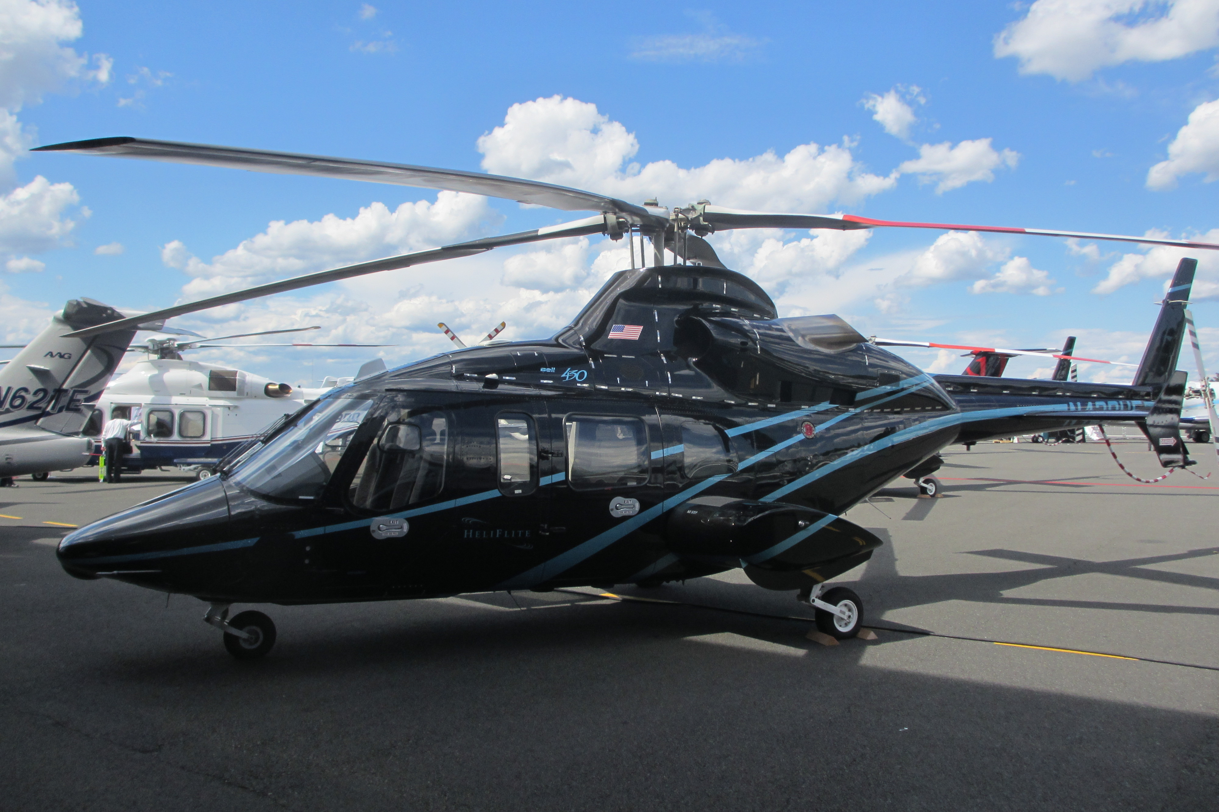 Exterior of Bell 430 helicopter.